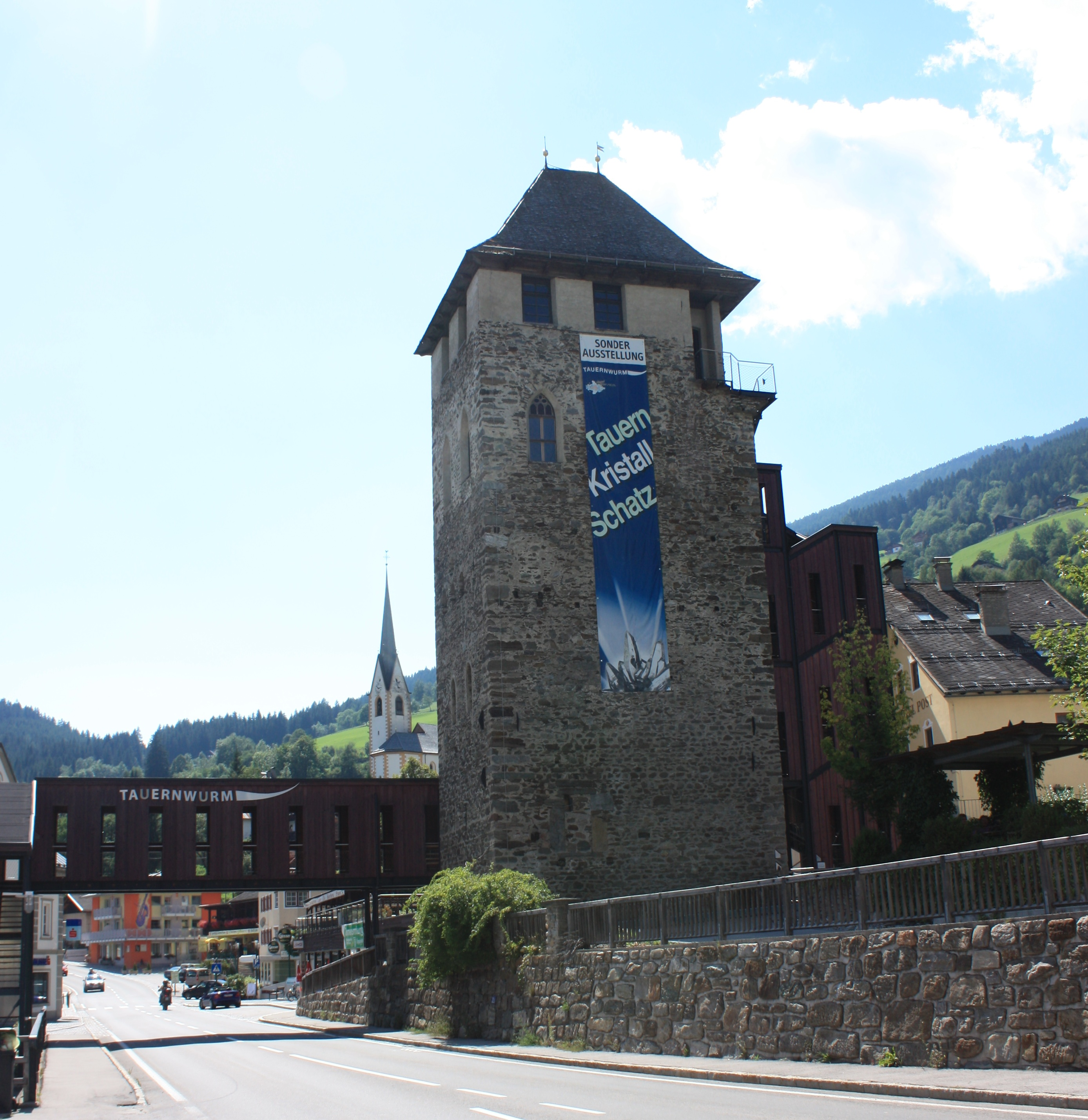 Waterfalls Locality: Winklern Community:Winklern